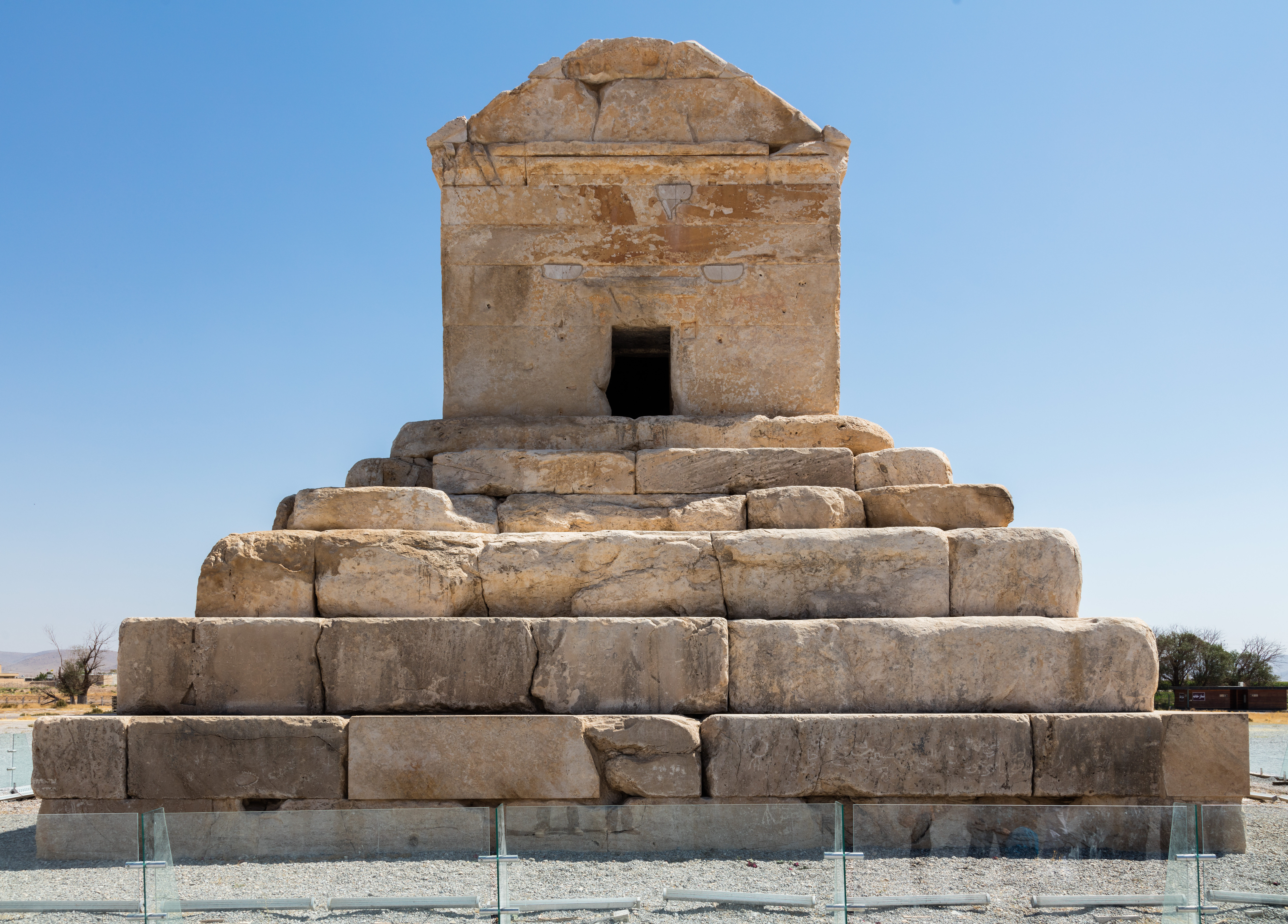 Pasargadae, Iran